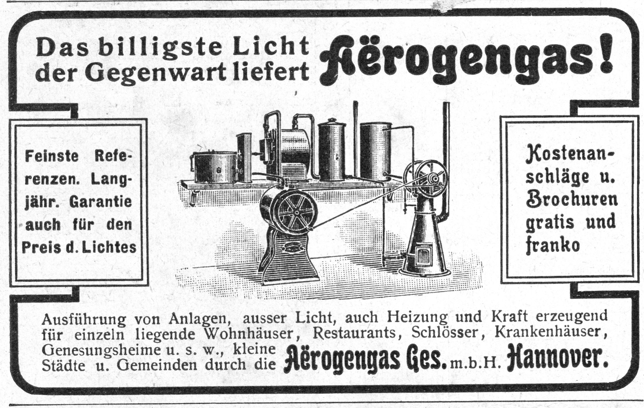 Ad of Aerogengas GmbH Hannover